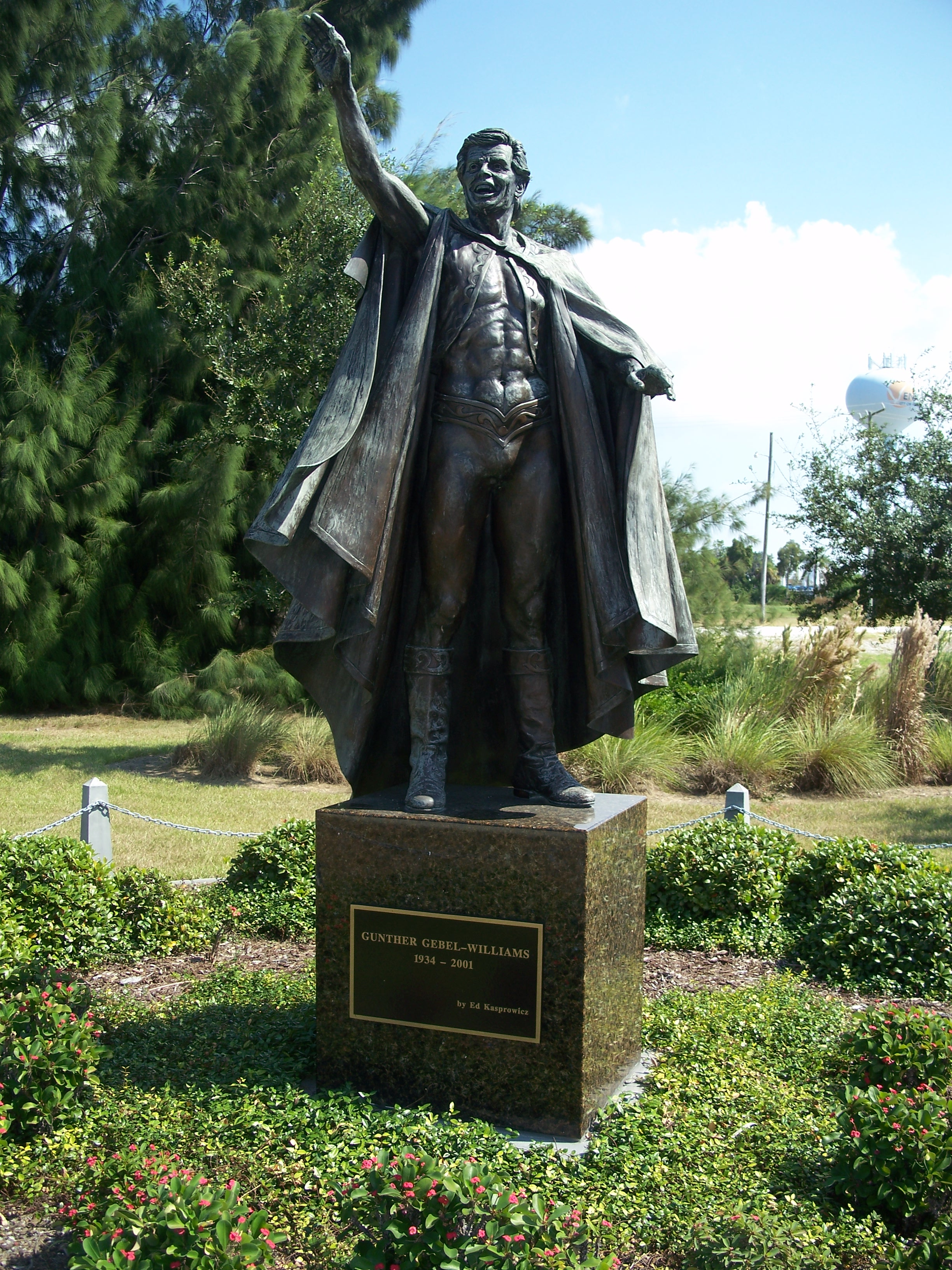 Venice, Florida: Gunther Gebel-Williams statue